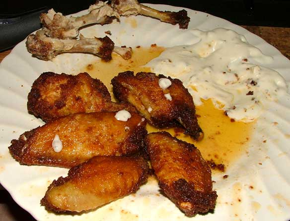 Homemade Buffalo Wings, coated in Italian bread crumbs, deep fried, with butter, vinegar, and Tabasco hot sauce and chunky bleu cheese dressing dipping sauce.